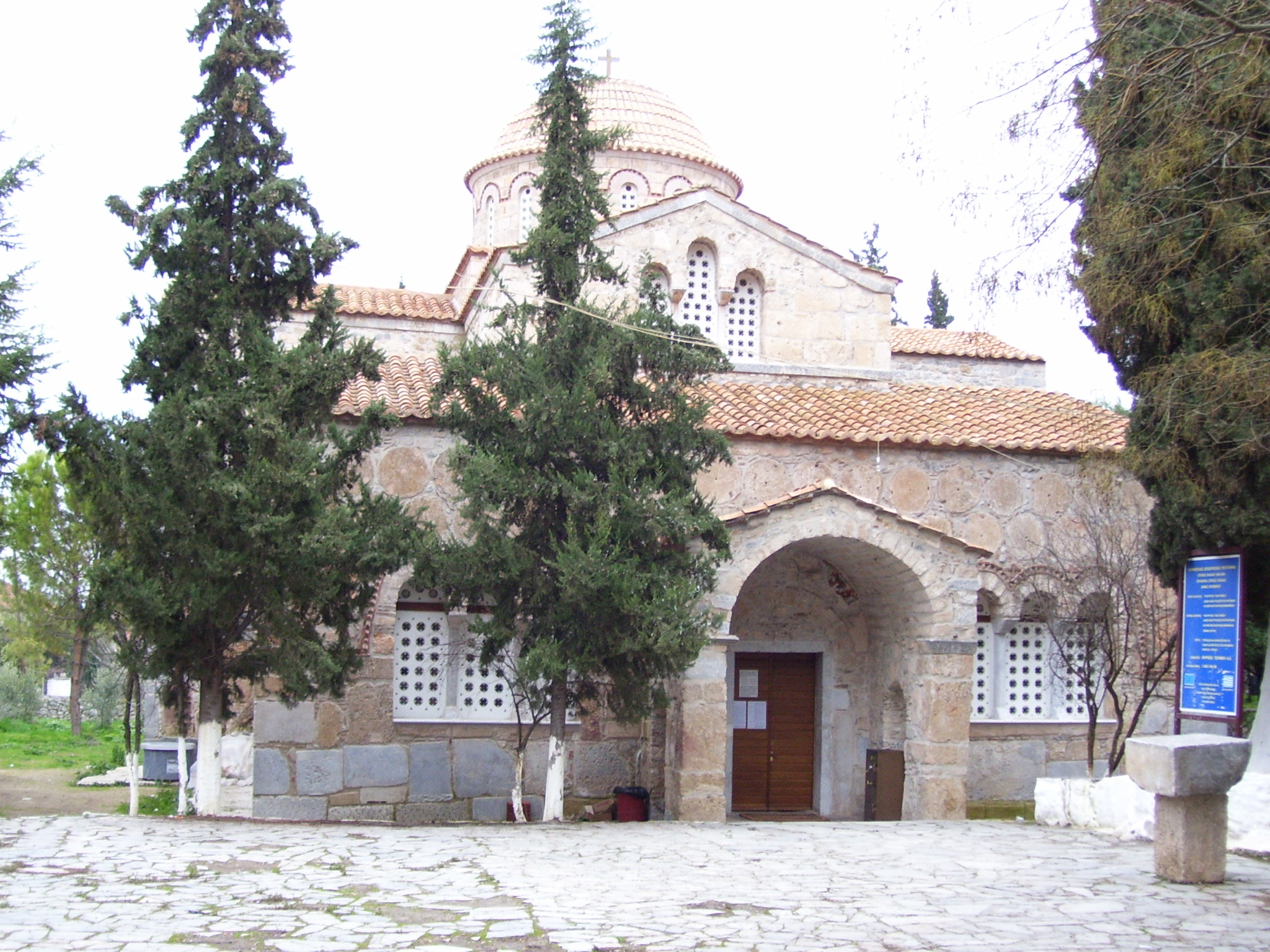 Scripus monastery in Orchomenos, Boeotia, Greece